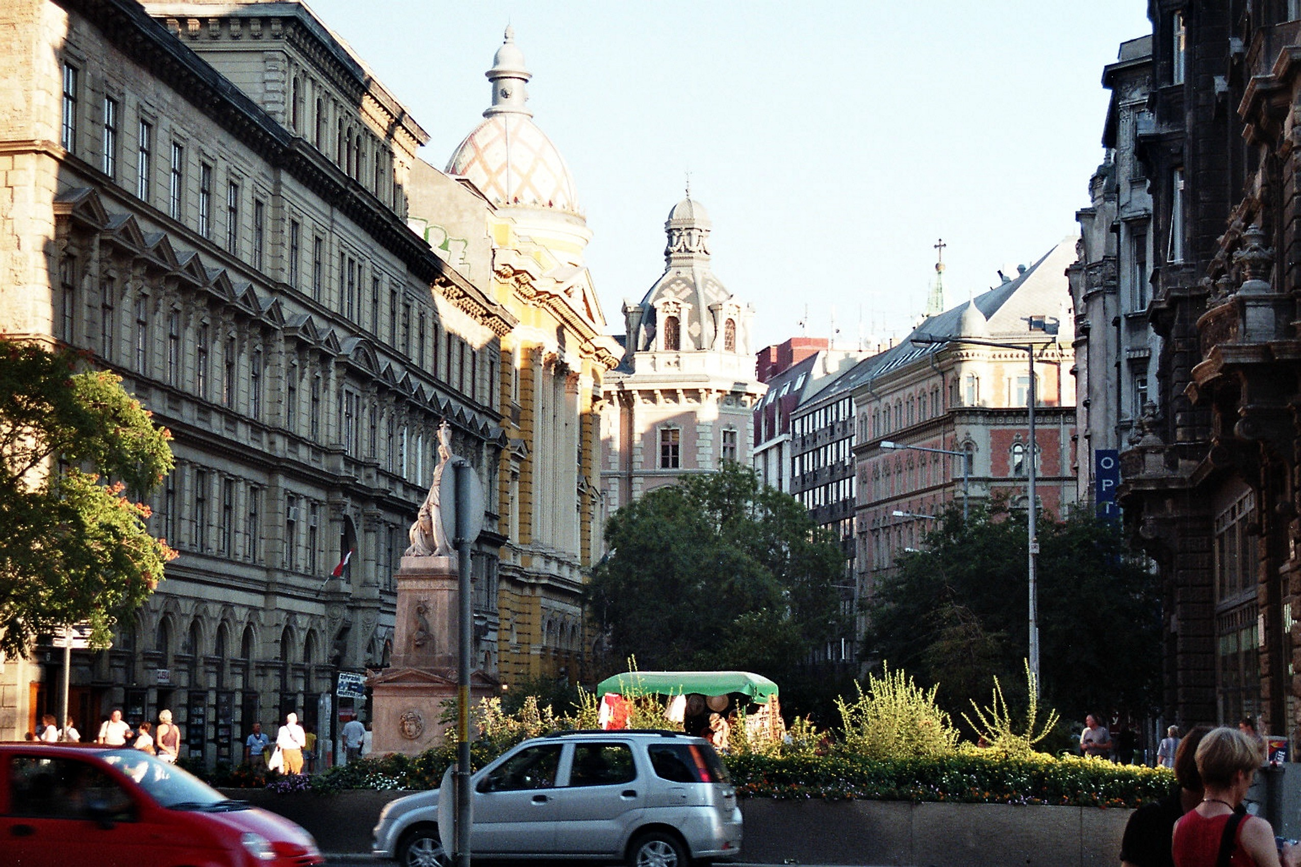 Budapest, the Ferenciek Square